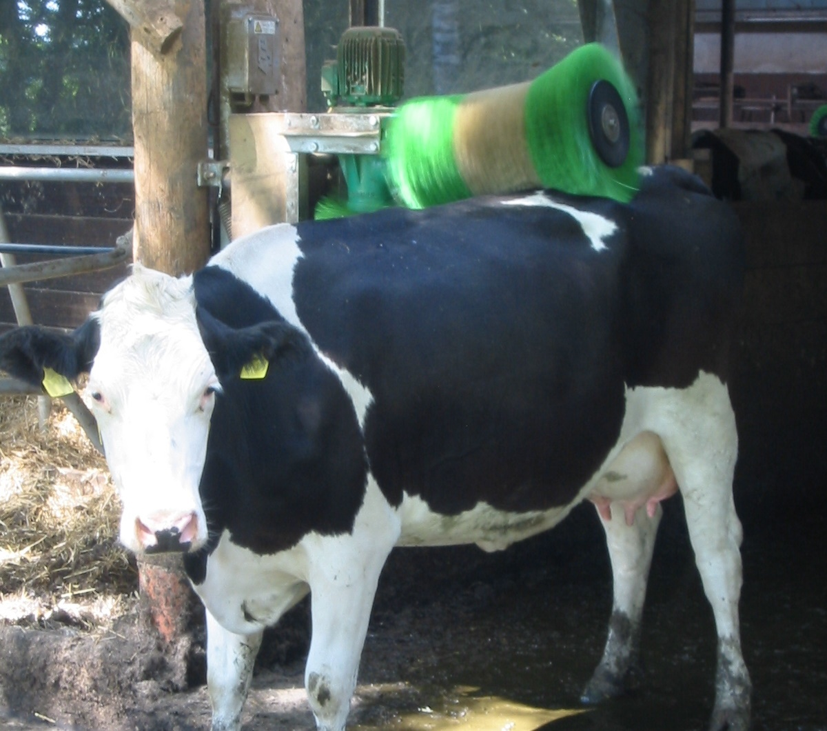 Massage device for domestic cattle